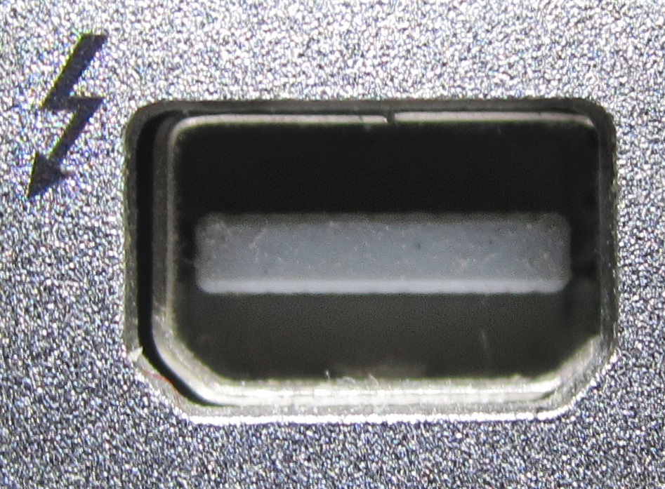 Thunderbolt Connertor